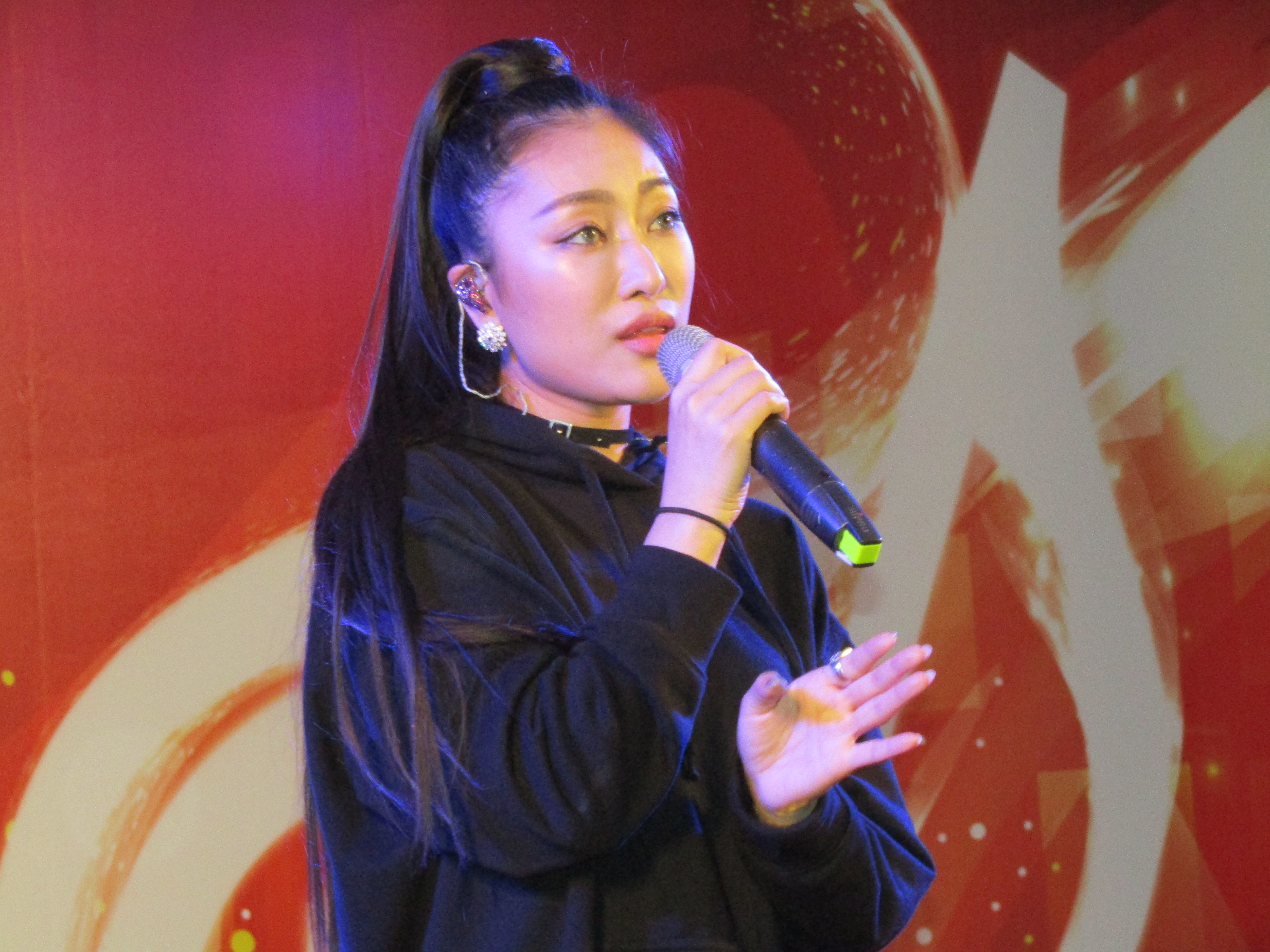 Yuzi Qin is in Huashan 1914 Creative Park